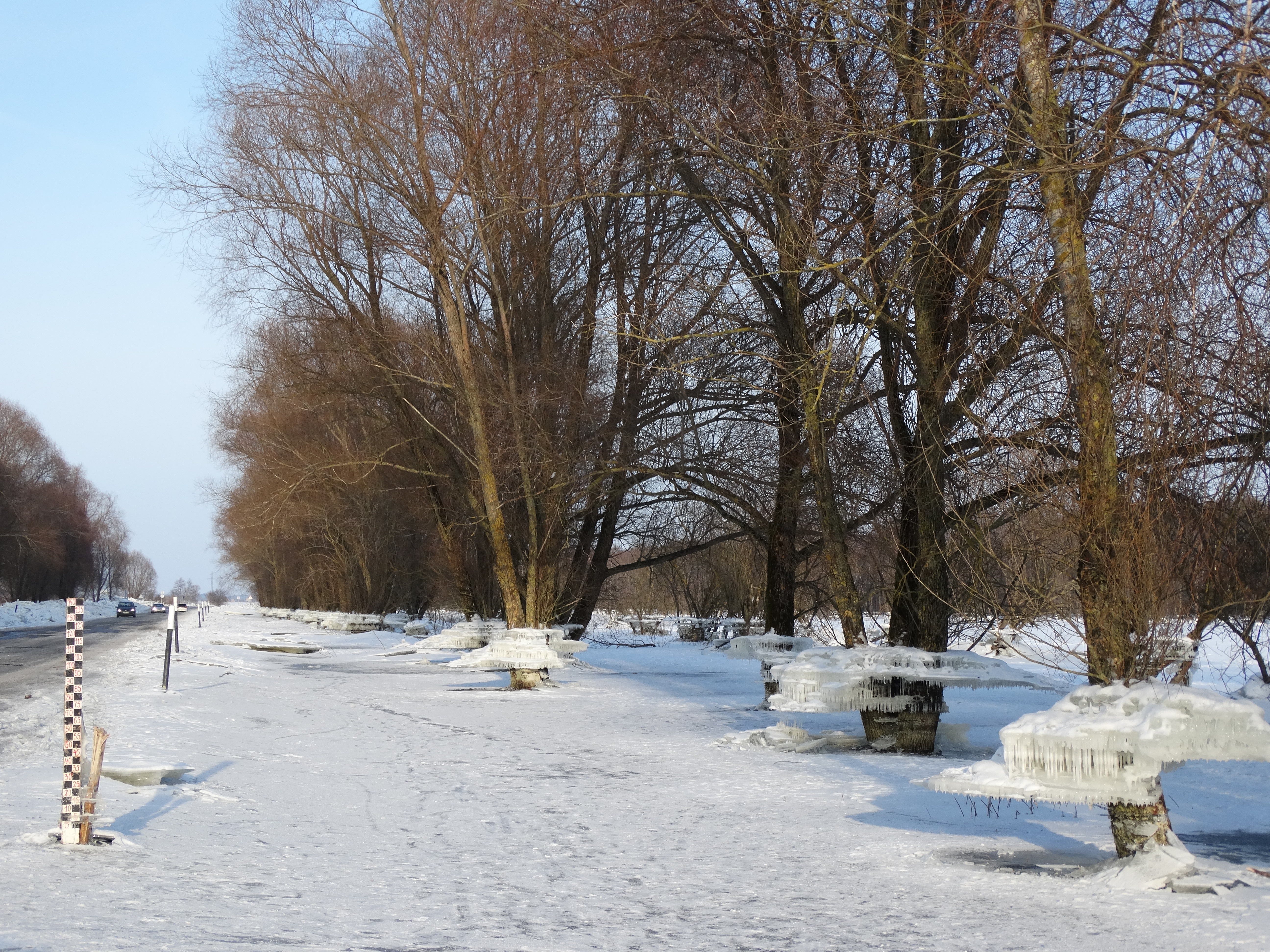 Regional road 206, Rusnė, Šilutė district, Lithuania